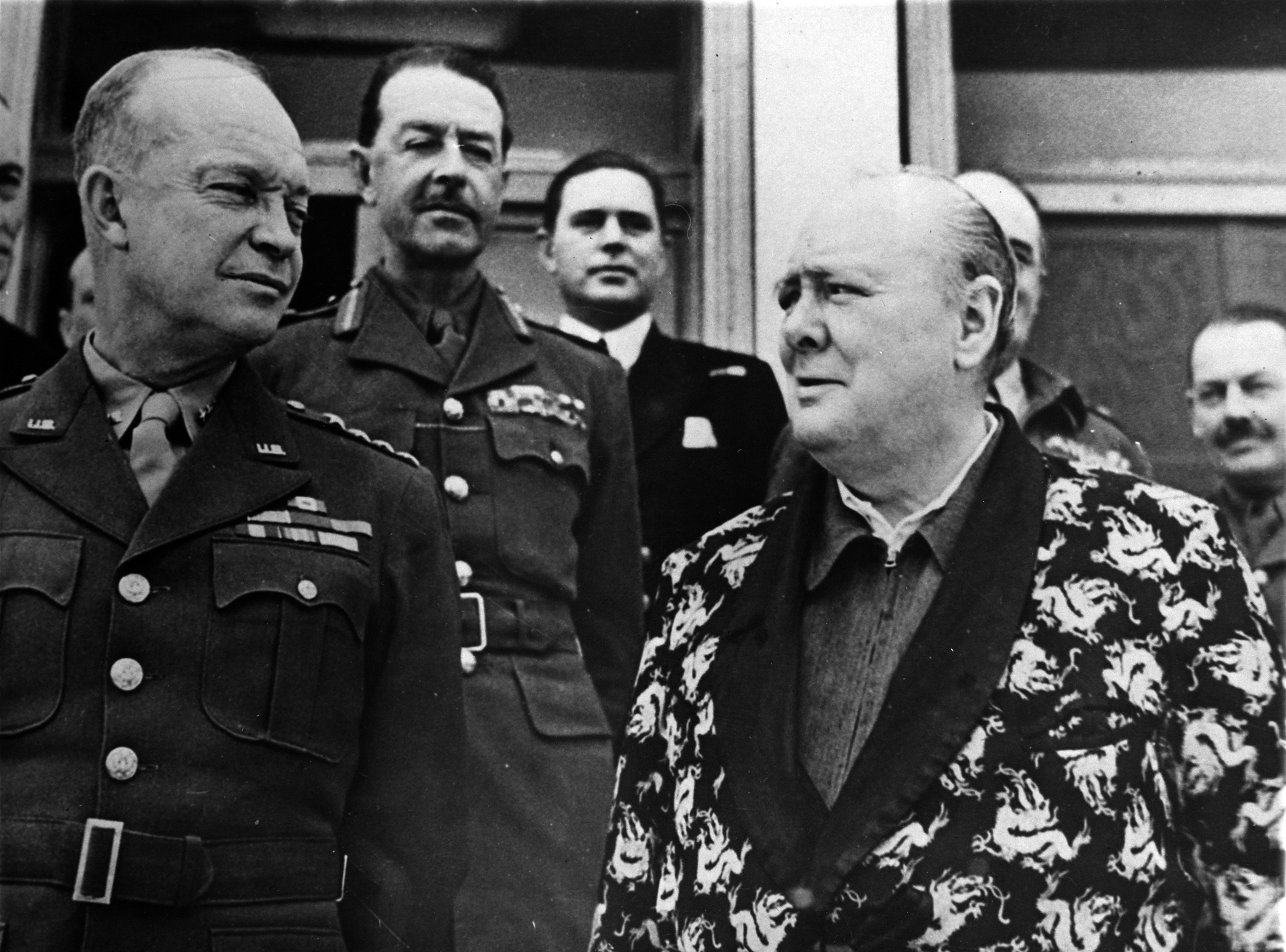 Gen. Dwight Eisenhower (left), Allied commander-in-chief of second front forces organizing in Britain, Gen. Harold Alexander (second from left), allied commander-in-chief in Italy, and Prime Minister Winston Churchill (right), clad in a dressing gown while recovering from an illness, meet somewhere in the Mediterranean area.